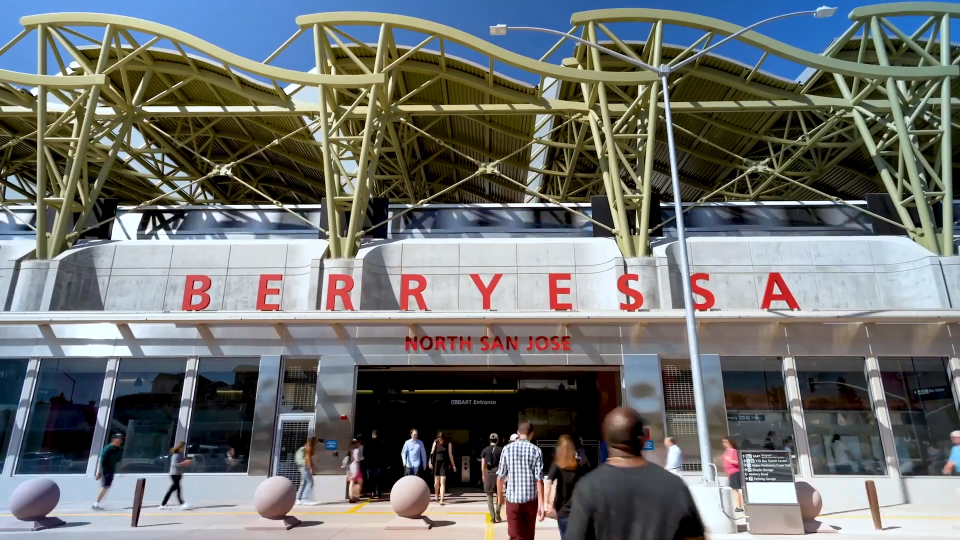 Screengrab of the Berryessa-North San Jose BART Station Front Entrance in VTA's promotional video for the station opening.